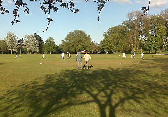 Watching an Evening Game of Cricket The game was being played by 11 or 12 year-olds. I suspect that the couple were grandparents.